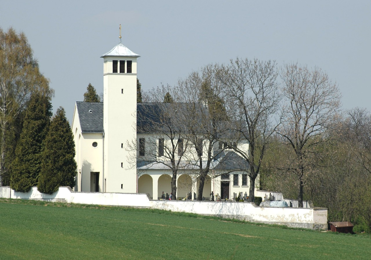 Churches of the Nativity of Saint John the Baptist in Skrochovice, Czech Republic